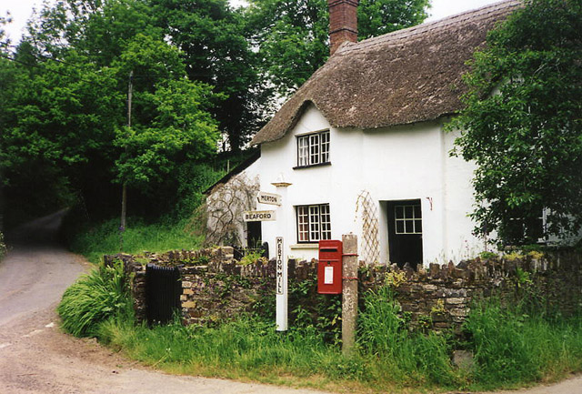 Merton: cottage by Merton Mill Cross. As the signpost states, the road on the left leads to Beaford – via Balls Corner and Beaford Mill, on the river Torridge